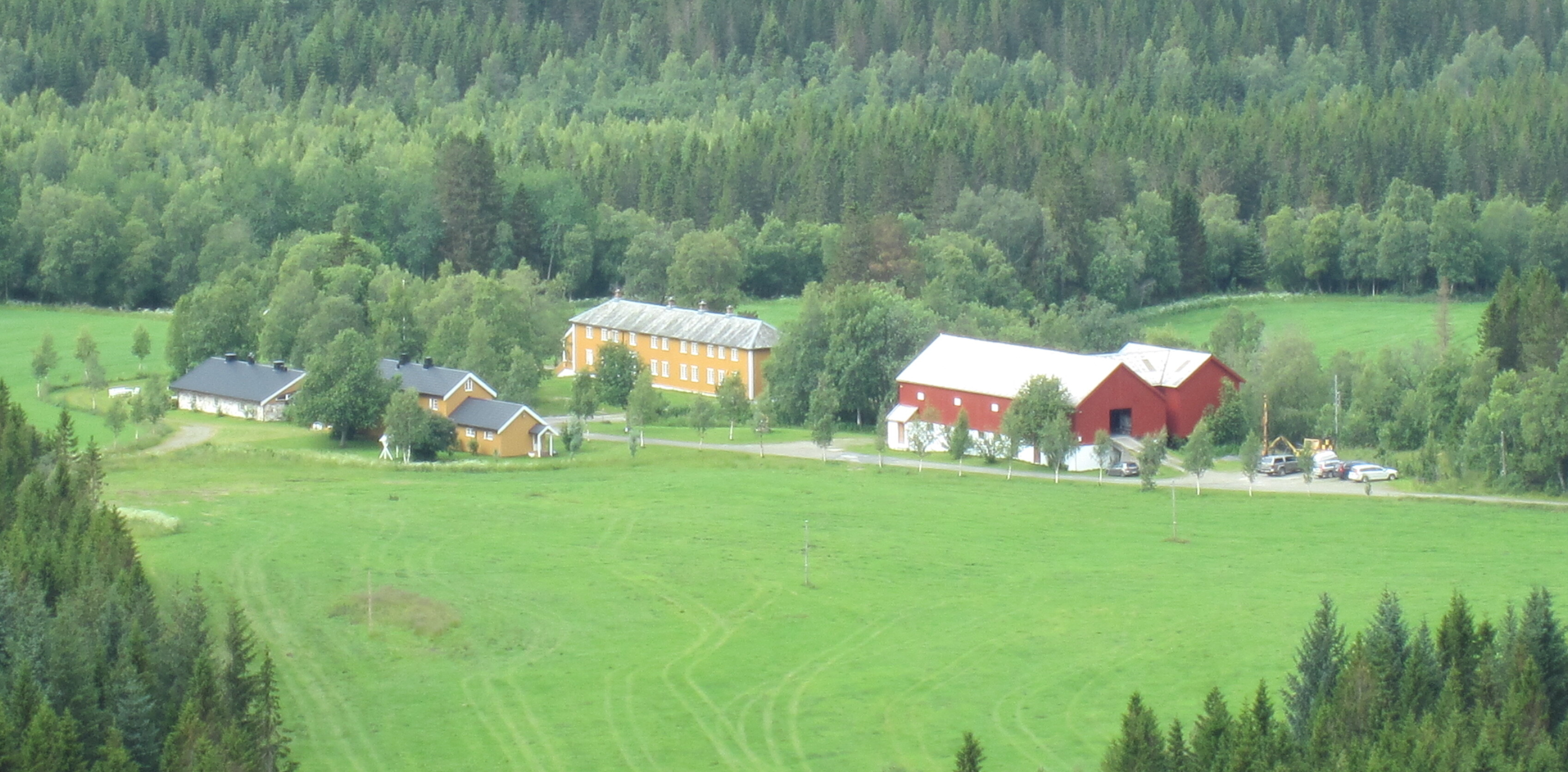 Photography of Horstad gård in Åbygda, Bindal, Norway. Taken from Kommelåsen.